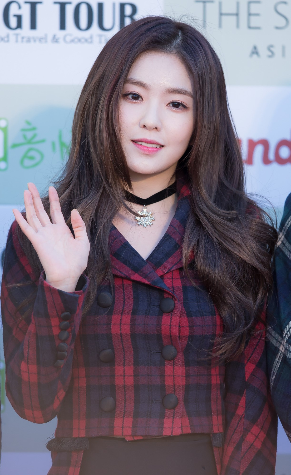 Irene Bae at Gaon Chart K-pop Awards red carpet, on February 17, 2016.